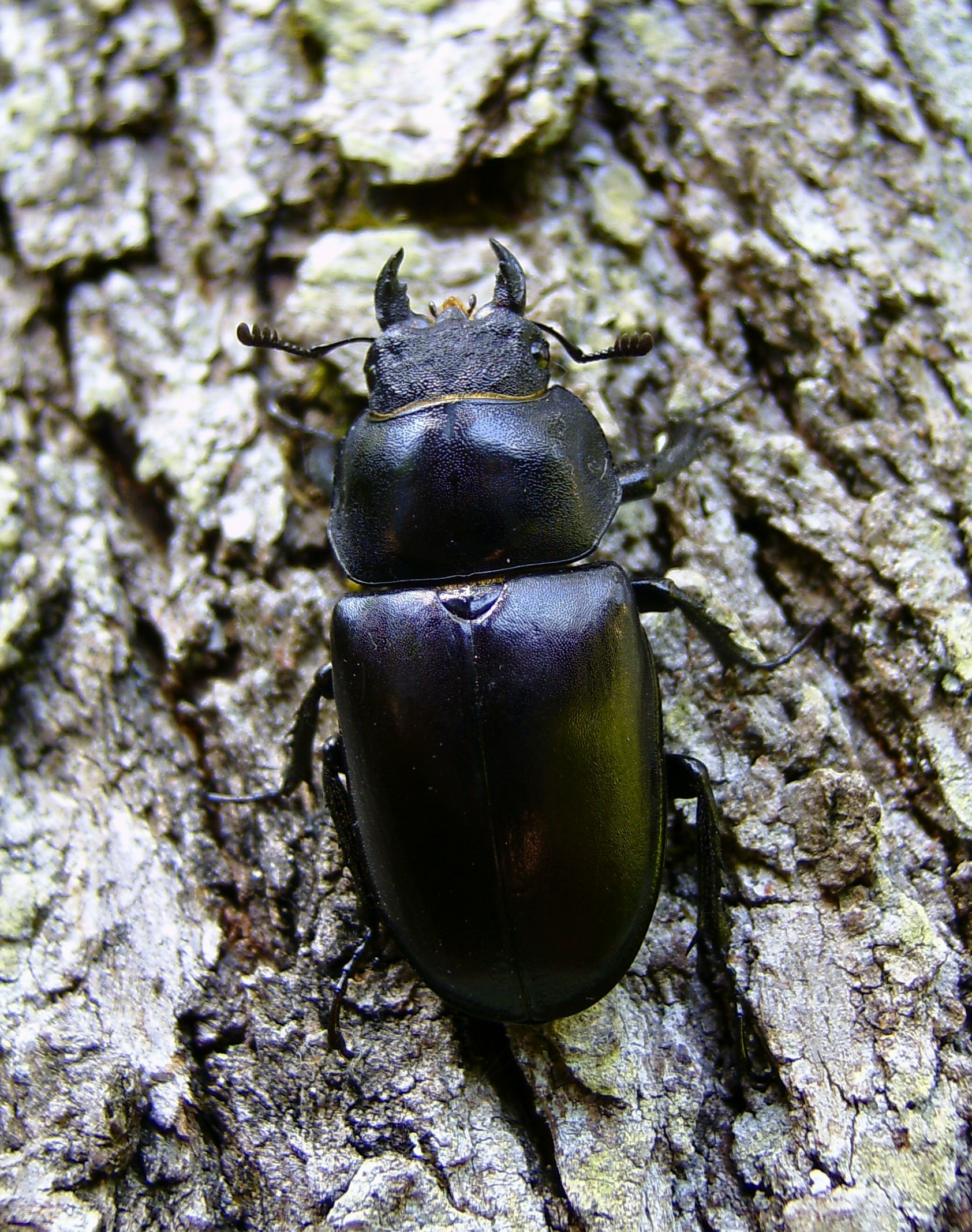 Lucanus cervus, female, 06.06.2015 Frankfurt